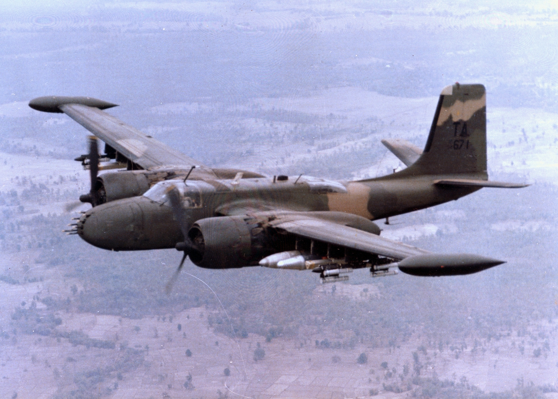 A USAF Douglas/On Mark B-26K Invader of the 609th Special Operations Squadron in flight over South-East Asia, sometime between 1967 and 1969. The B-26K 64-17671 (ex A-26C 44-35820) was rebuilt by On Mark as a B-26K and arrived in South-East Asia in June 1966. It was retired to the MASDC on 10 November 1969. The aircraft was later displayed in the Florence Air & Missile Museum, South Carolina (USA). When the museum closed in 1997, 64-17671 was scrapped for spare parts.